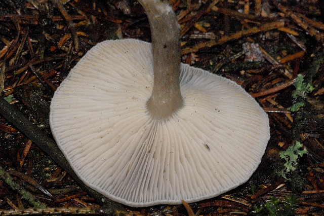 Clitocybe diatreta from Commanster, Belgium. If you think this is a different taxon, please contact James Lindsey.